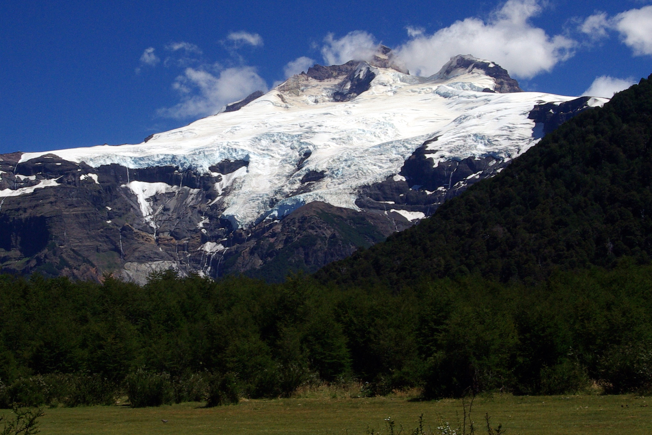 View of Mount Tronador from the popular viewing area at Pampa Linda.